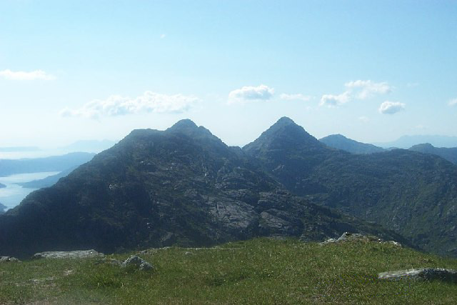 Sgurr na Cìche, Scotland. View west from Sgurr nan Coireachan